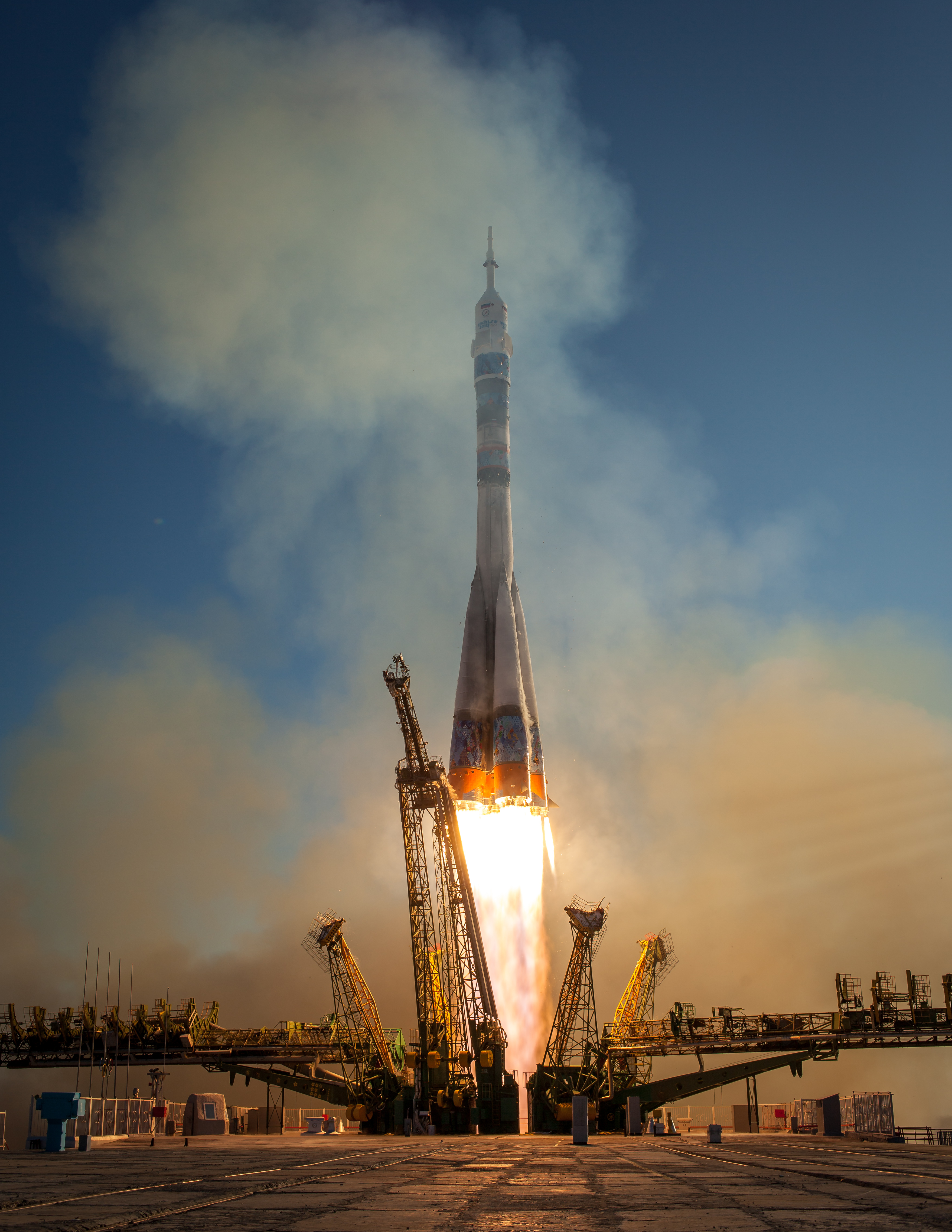 The Soyuz TMA-11M rocket is launched with Expedition 38 Soyuz Commander Mikhail Tyurin of Roscosmos, Flight Engineer Rick Mastracchio of NASA and Flight Engineer Koichi Wakata of the Japan Aerospace Exploration Agency onboard, Thursday, Nov. 7, 2013, at the Baikonur Cosmodrome in Kazakhstan. Tyurin, Mastracchio, and, Wakata will spend the next six months aboard the International Space Station.